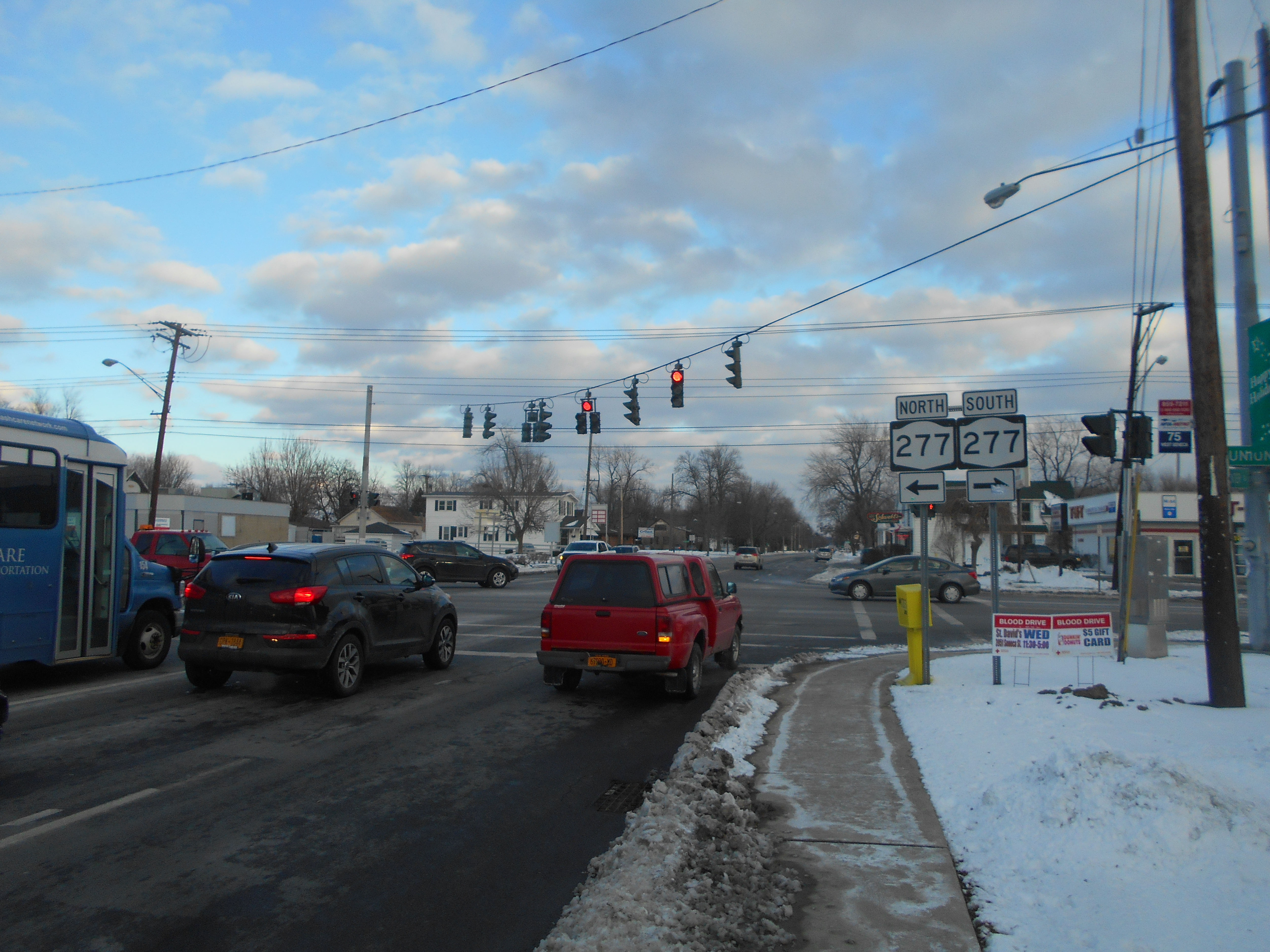 NY 16 approaching NY 277 in West Seneca, New York.